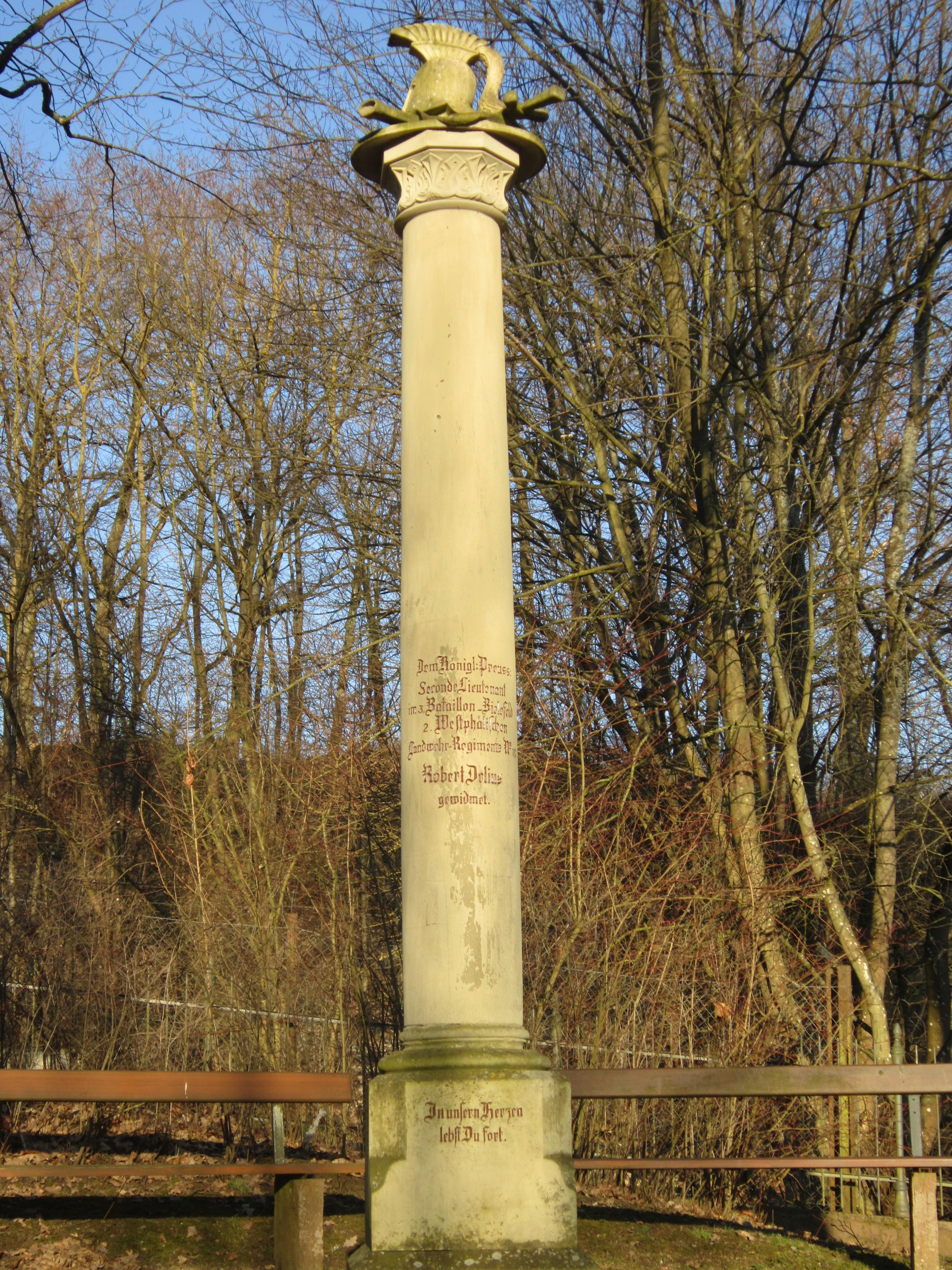 Grave of German officer Eduard Schlagintweit in Hausen, a quarter of the German spa town of Bad Kissingen (Lower Franconia, Bavaria).